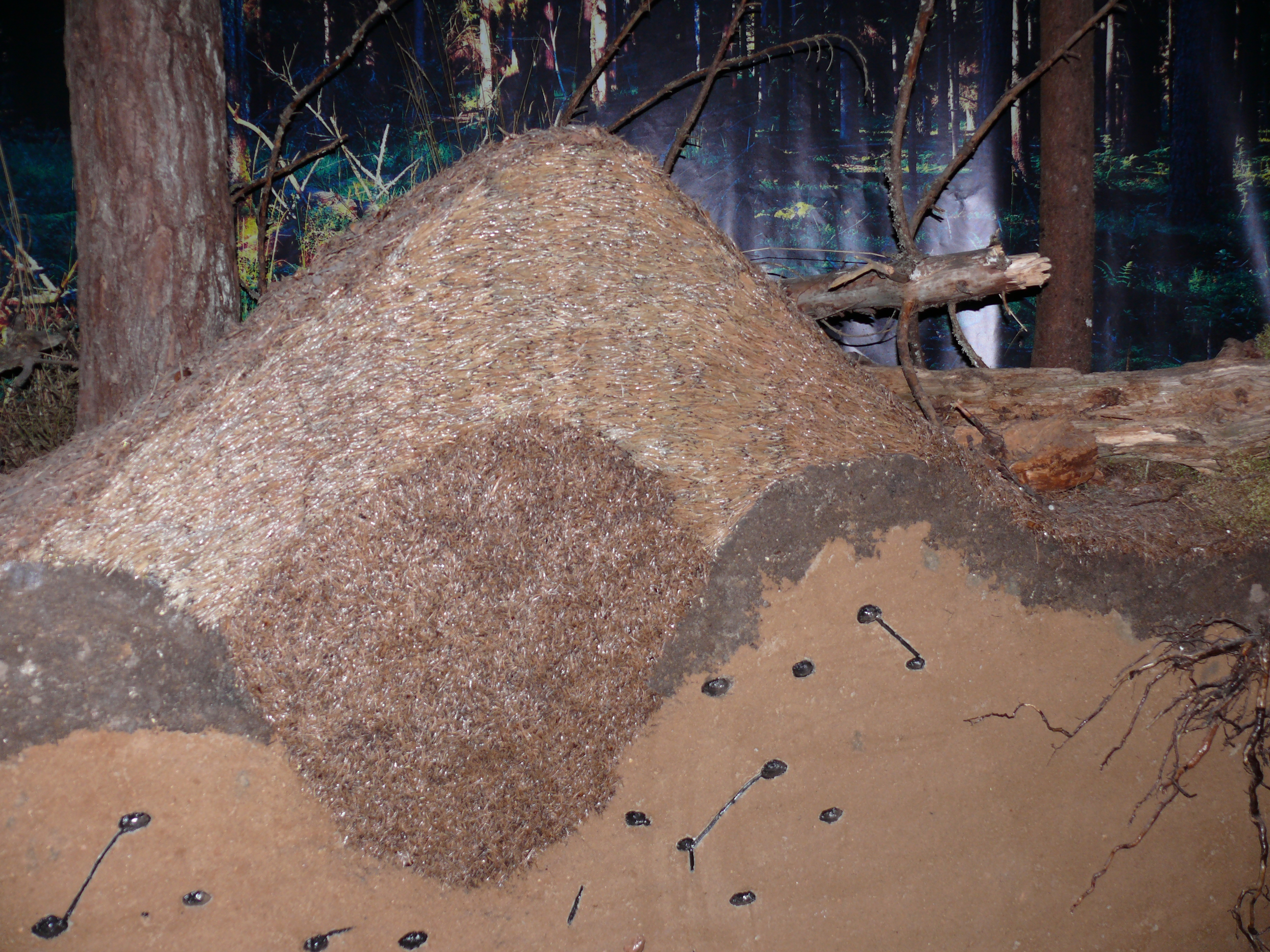 ant-hill, museum in Bialowieza